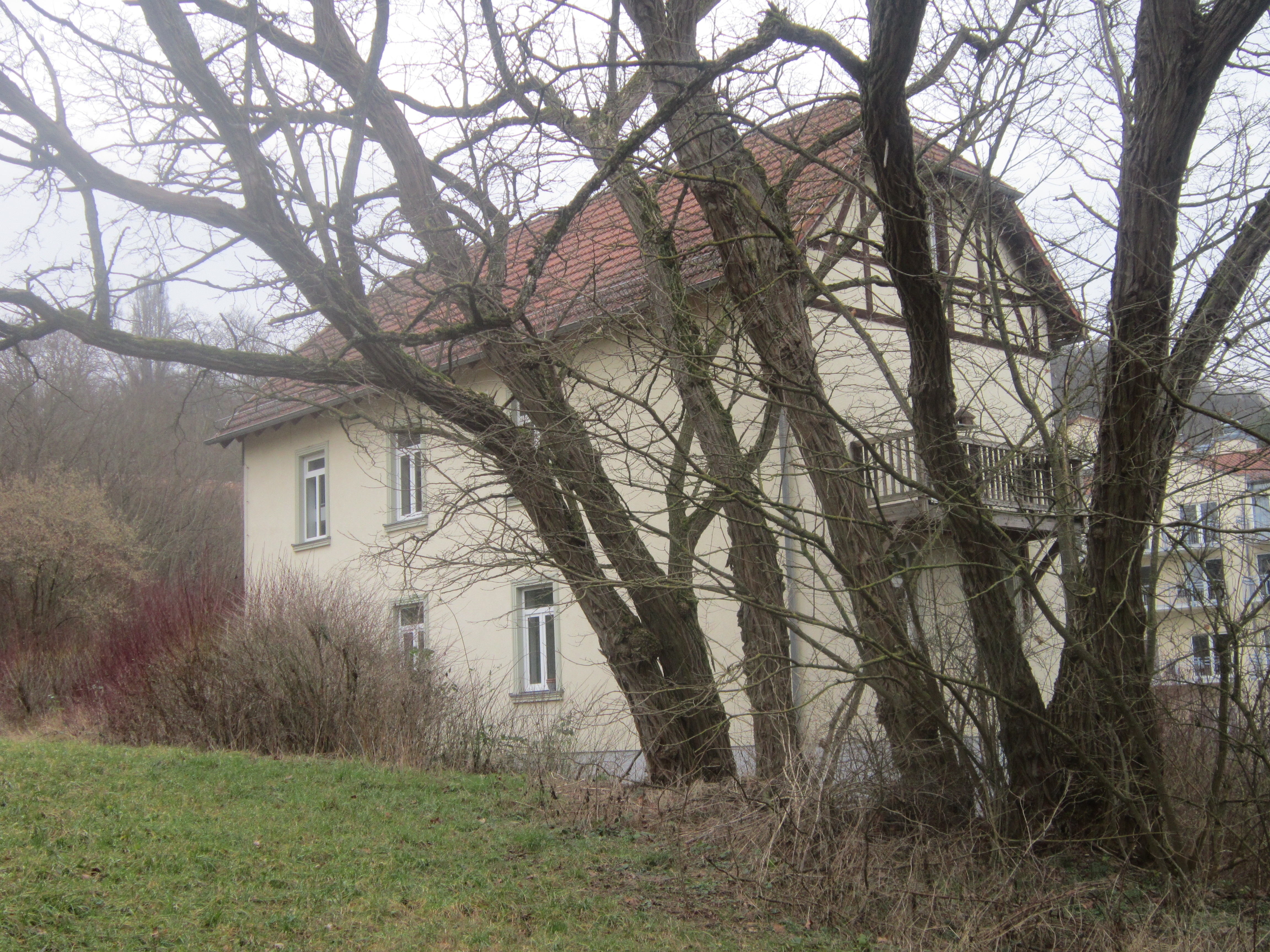 Building in the German spa town of Bad Kissingen in Lower Franconia (Bavaria) (Address: Bismarckstraße 68; 70).